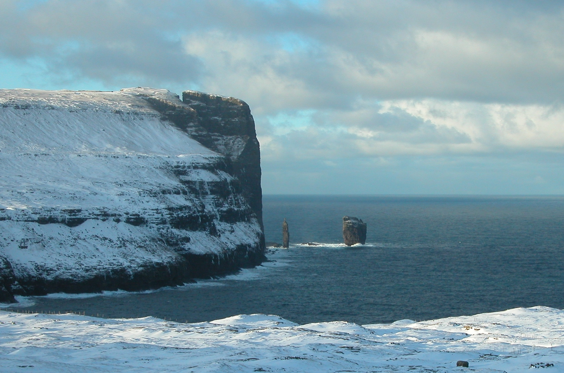 Risin og Kellingin, two famous sea stacks north of Eiði at Eysturoy, Faroe Islands.